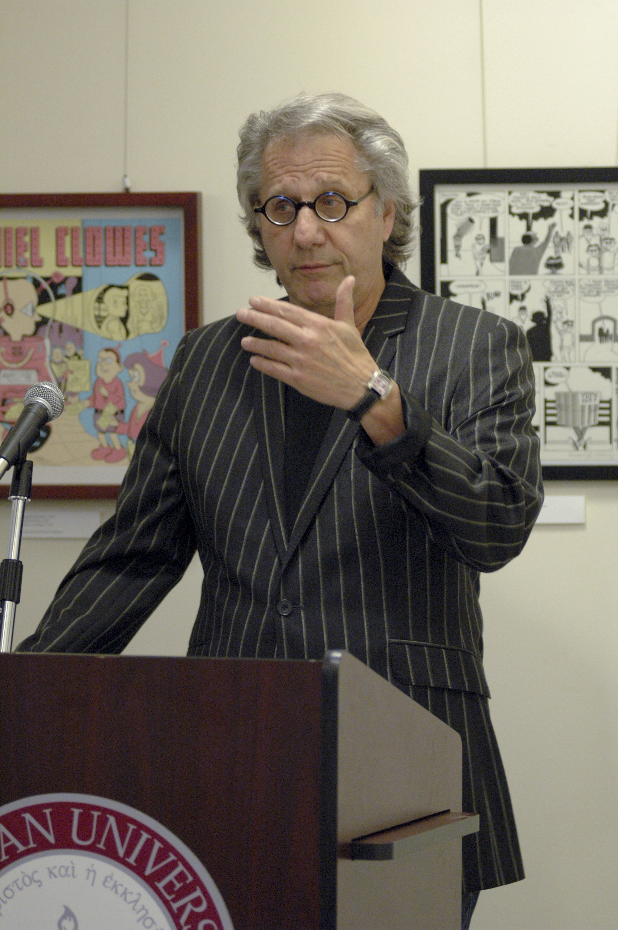 Lecturing at Chapman University.